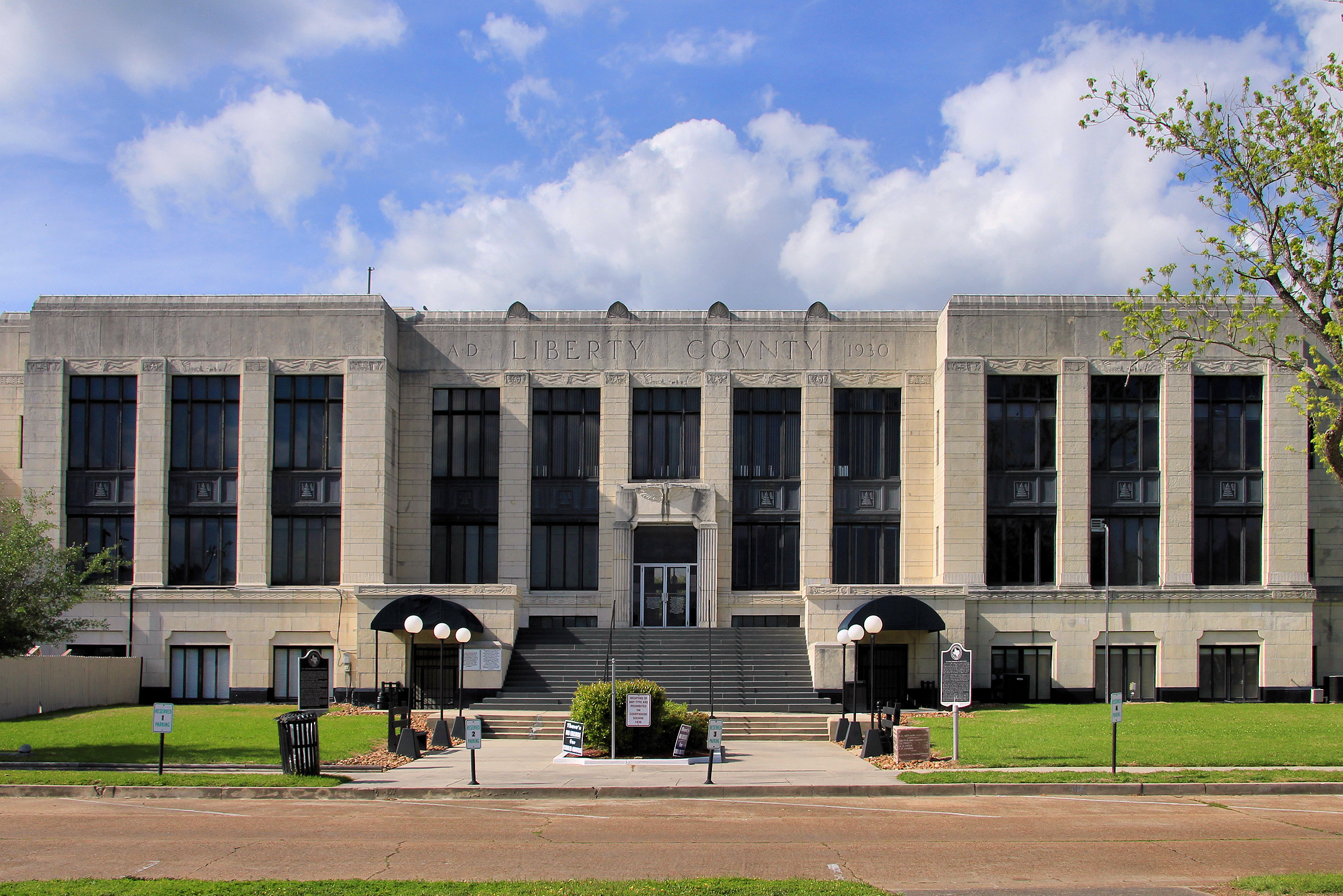 The Liberty County Courthouse in Liberty, Texas, United States. The courthouse was listed on the National Register of Historic Places on December 12, 2002.